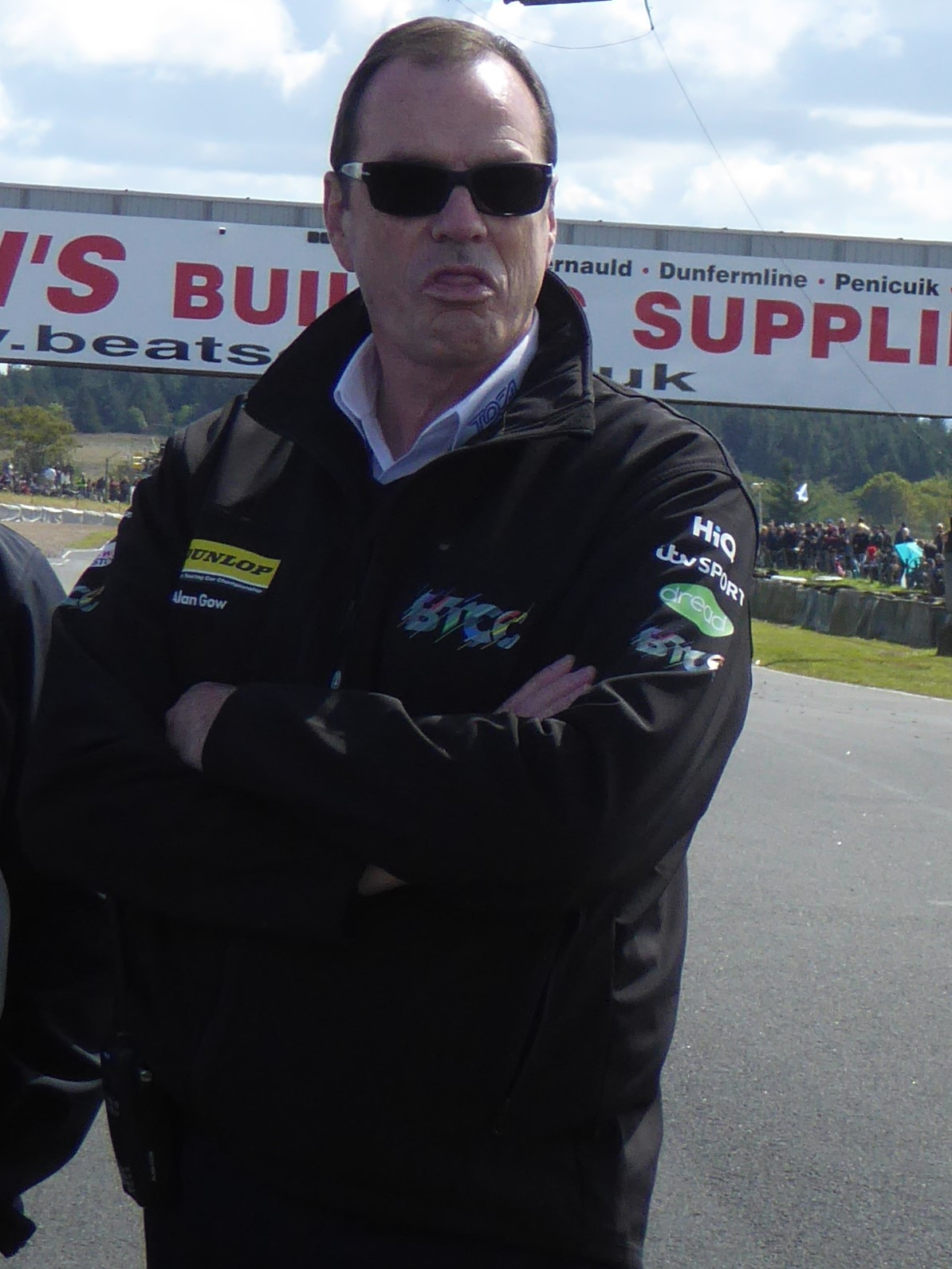 Series director Alan Gow, at the Knockhill round of the 2017 British Touring Car Championship.